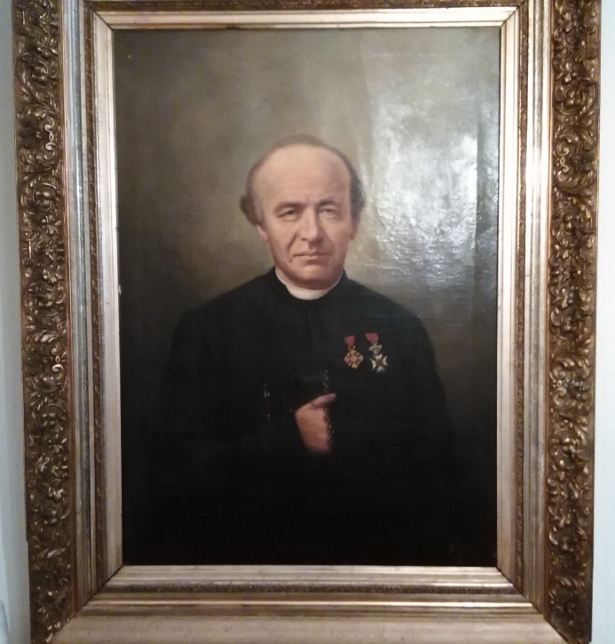 Picture of a painting representing Guido Gezelle with his decorations. The painting was made by the workshop of Hubertus Aloijsius Henricus Maria Bogaerts (Hubert Bogaerts) in Brussels (Société Belge des Portraits Bogaerts) in 1902 and signed Bogaerts Bruxelles in the right corner below.